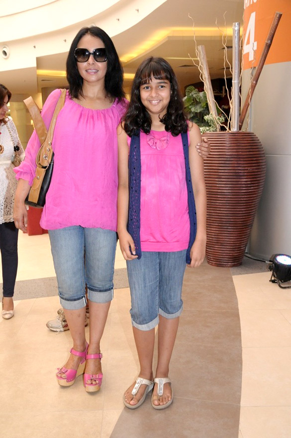 Suchitra Krishnamurthy at Phoenix Marketcity